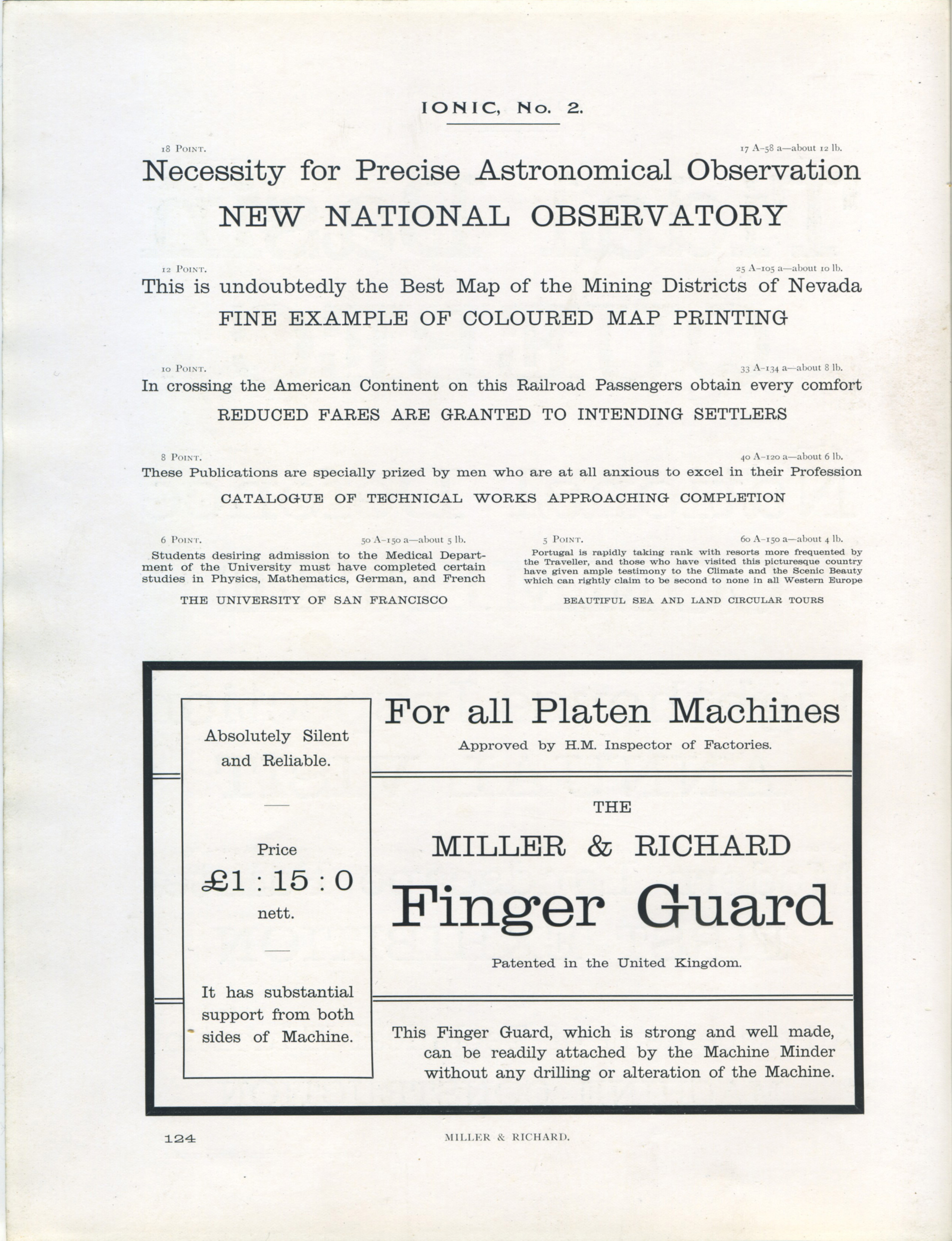 From